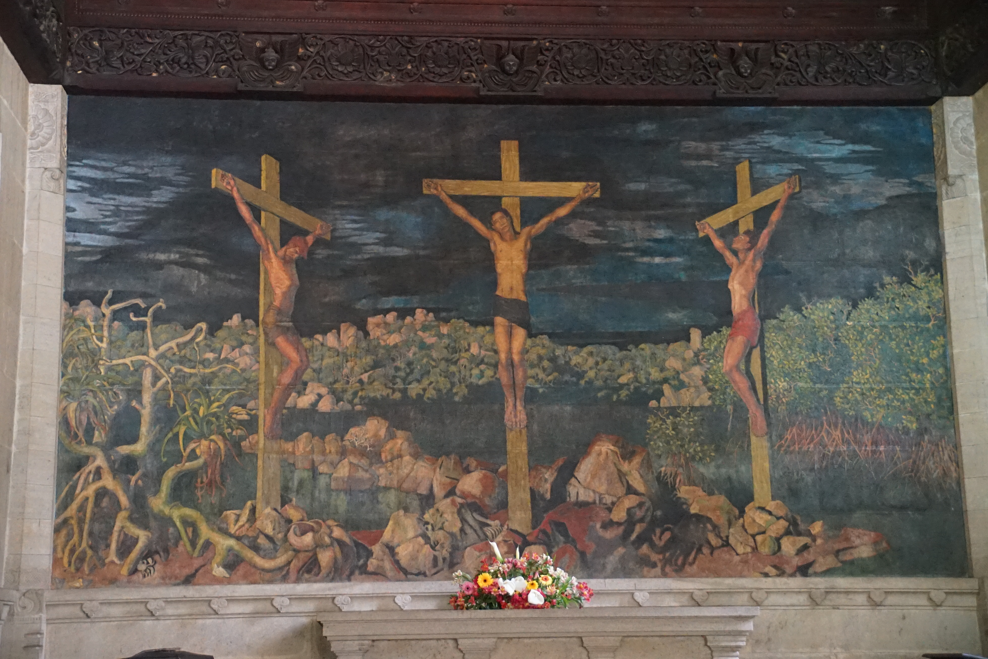 "The Crucifixion", a mural painted by David Paynter in 1933, located above the altar at Trinity College Chapel, Kandy